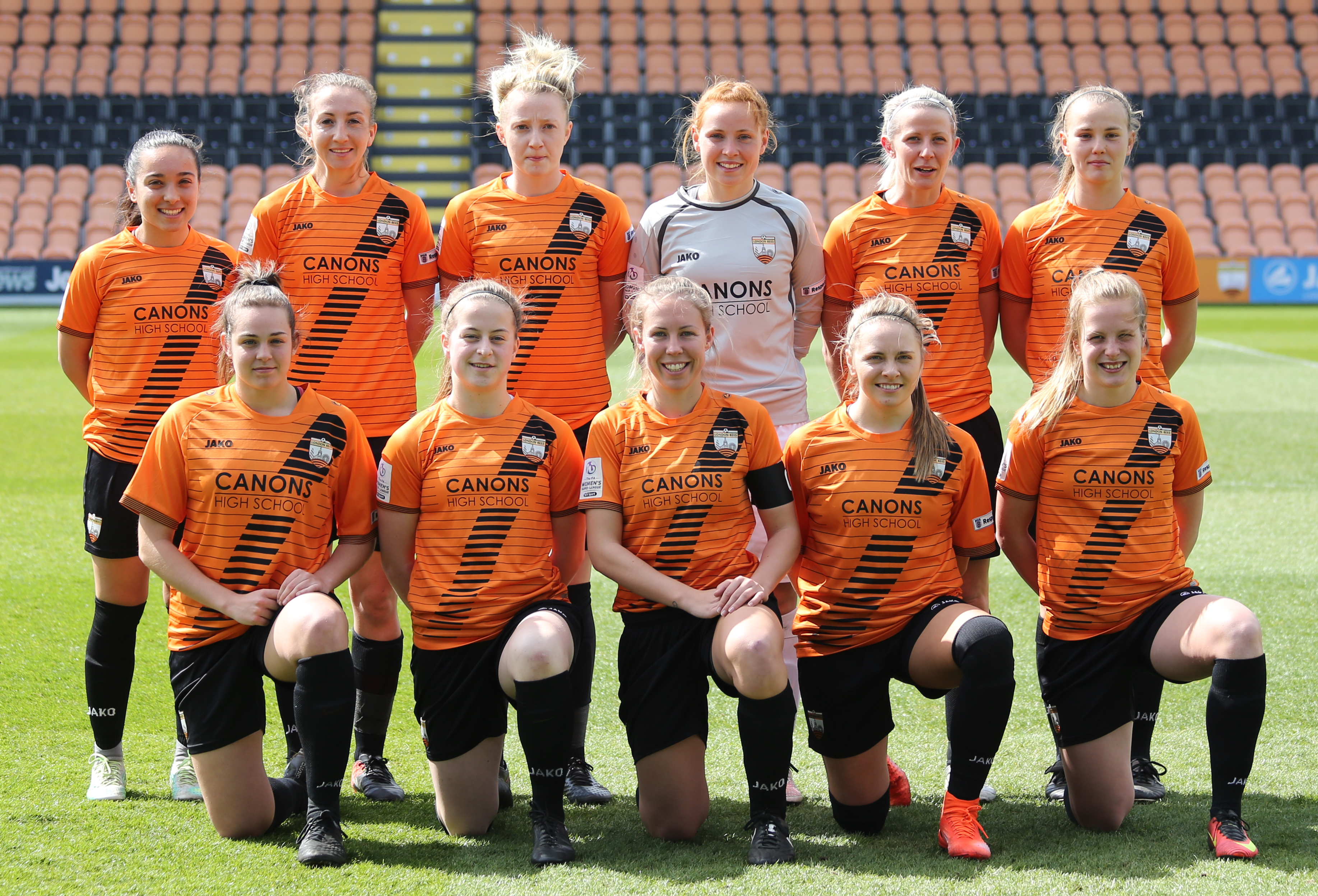 London Bees v Millwall Lionesses, 15 April 2017 – London Bees starting line-up.